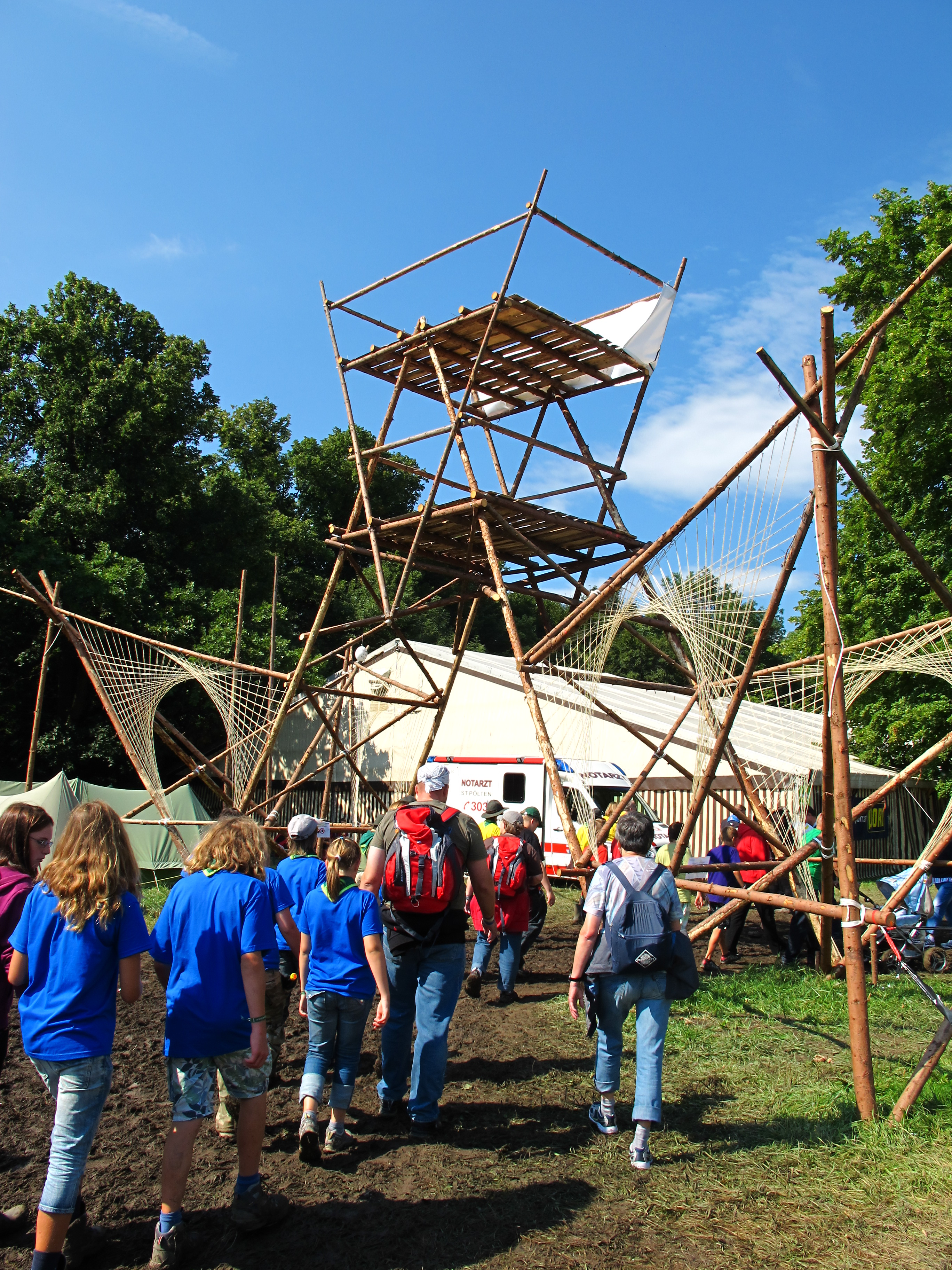 Buildings at the scout meeting Austrian Jubilee Jamboree urSPRUNG 2010 in the park of the Castle of Laxenburg / near Vienna / Austria / EU.